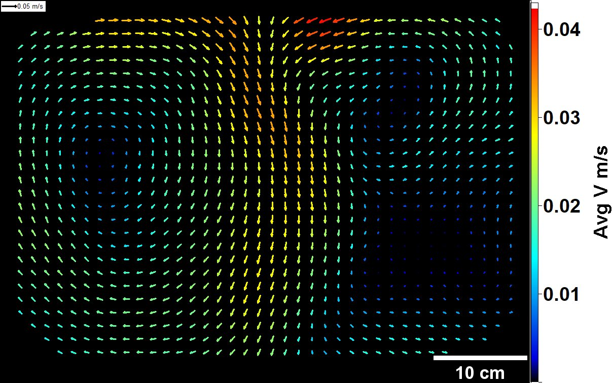 An experimental model of Langmuir circulation.